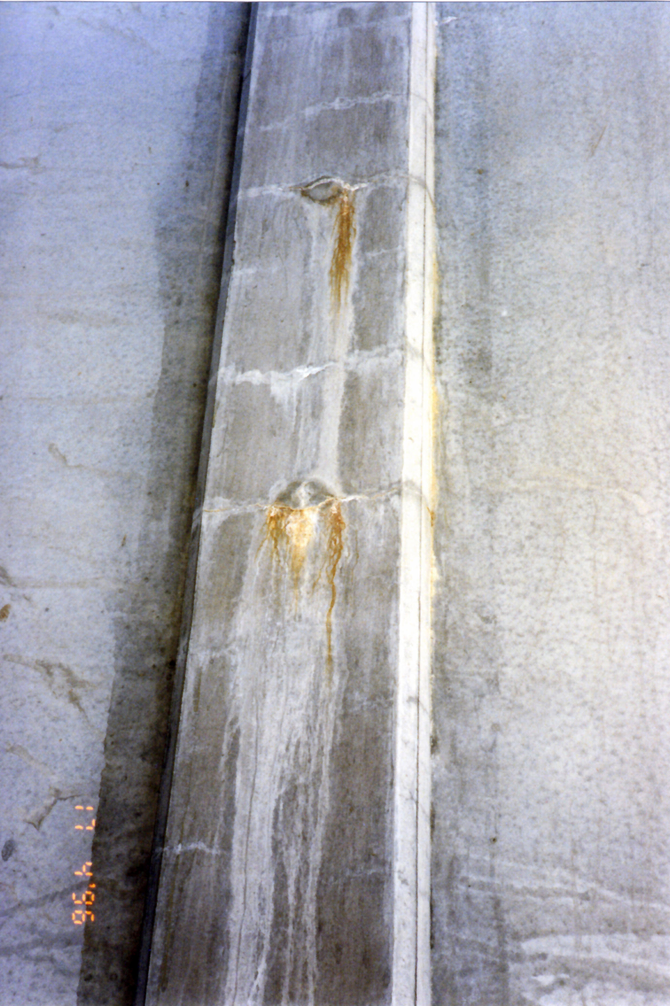 Secondary efflorescence: Water seeping through the concrete, often in cracks, having dissolved components of cement stone: like Osteoporosis of the concrete. This often happens in parking garages, as road salt comes off cars as a saline solution in the winter, then affecting the concrete floor the cars are parking on.